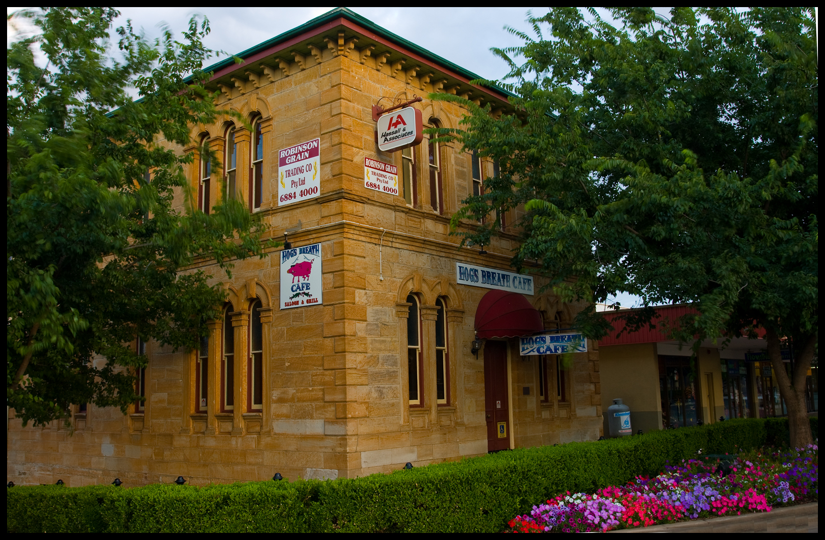 Dubbo - Hogs Breath Cafe